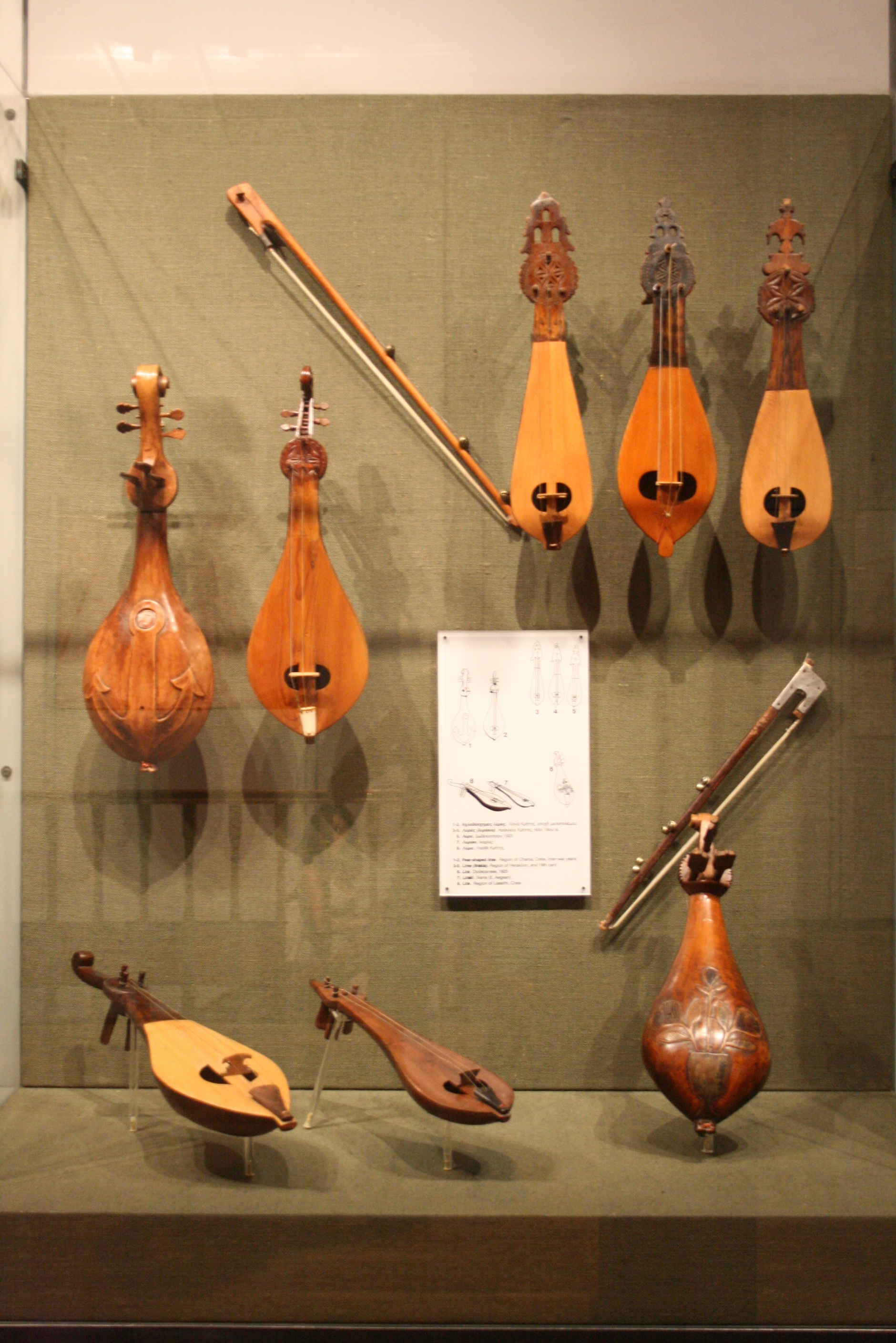 Different types of lyres from Crete in the Museum of Greek Traditional Music Instruments in Athens